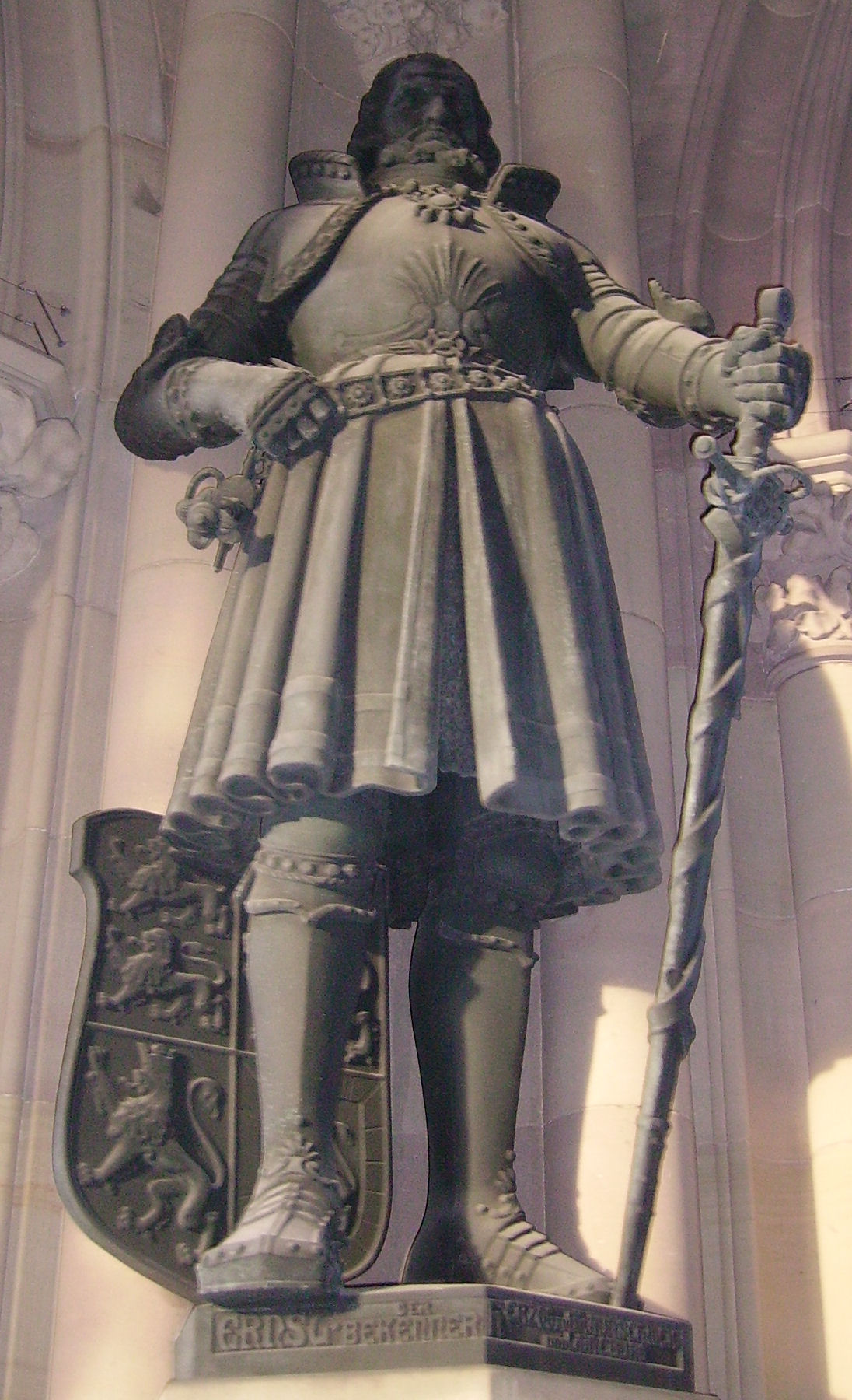 Gedächtniskirche (Memorial Church) in Speyer, Germany